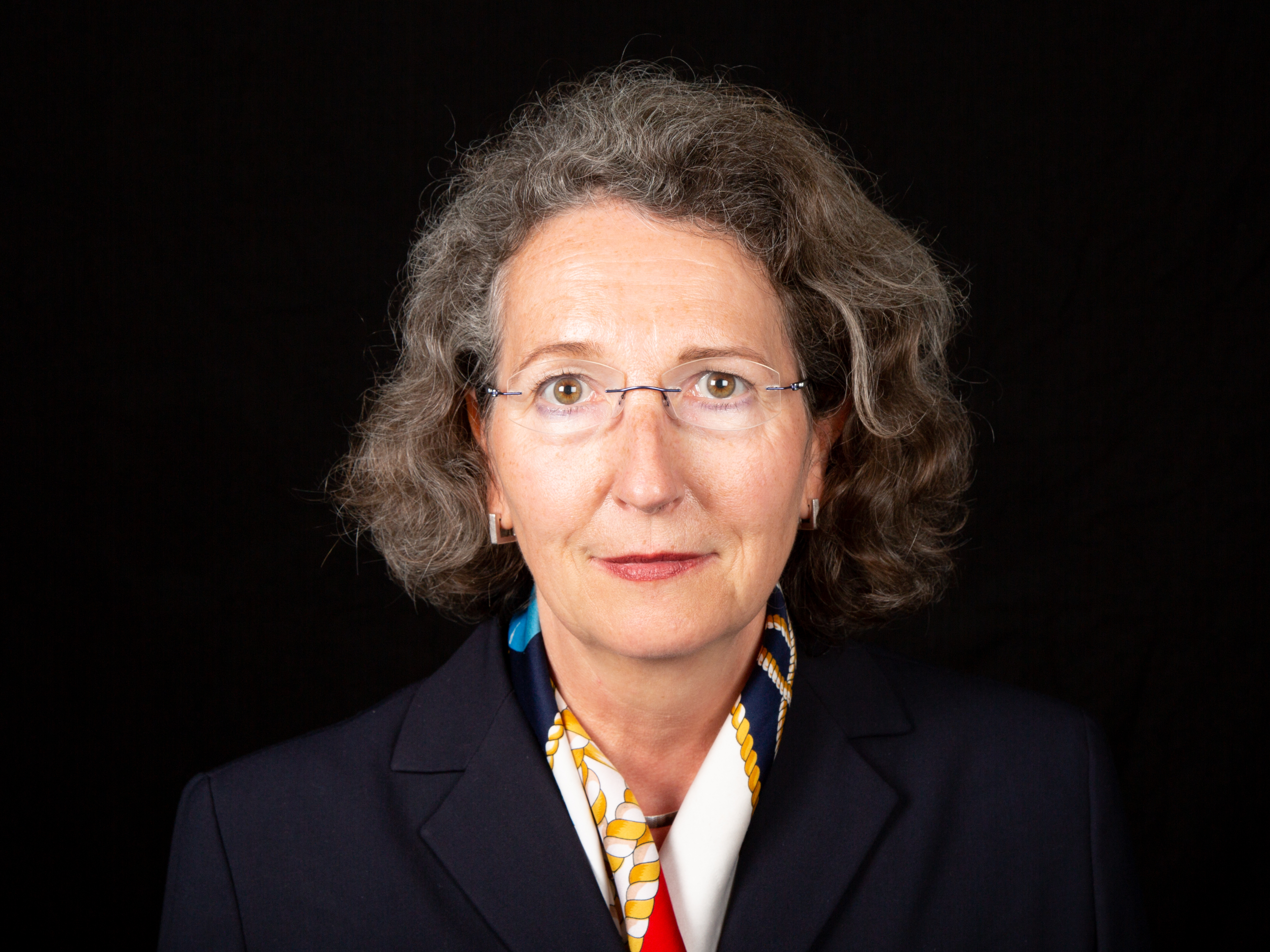 German historian Ursula Lehmkuhl at the Frankfurt Book Fair 2018